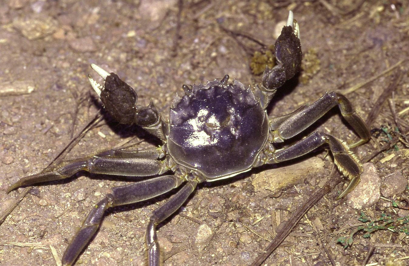 The Chinese mitten crab, Eriocheir sinensis. This male specimen was found ashore in 150 metres distance to the banks of the Elbe river in the German federal state of Brandenburg. It behaves defending against the viewer by erecting the body and showing its hairy claws. The carapax’s width is estimated at six centimetres.